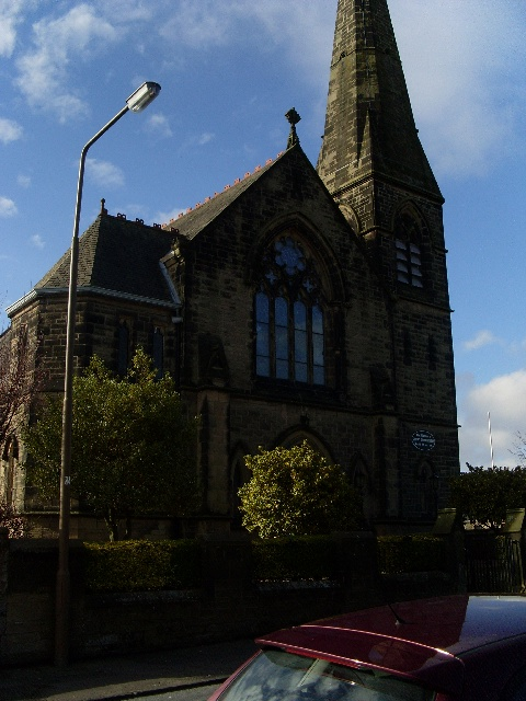 St John's Church, Bathgate Viewed from Mid Street.